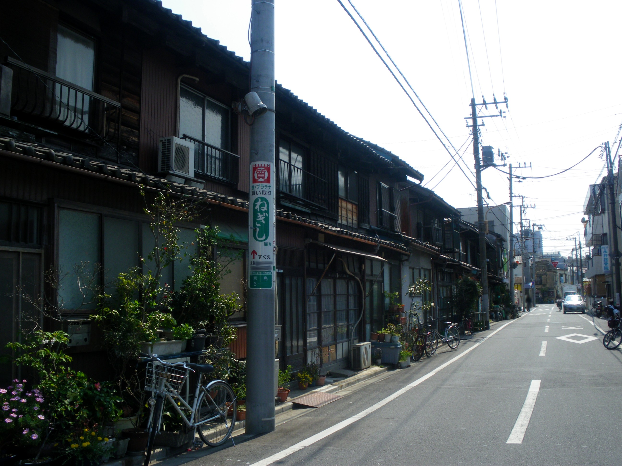 Wooden tenement houses at kyojima 3-chome,Sumida,Tokyo)